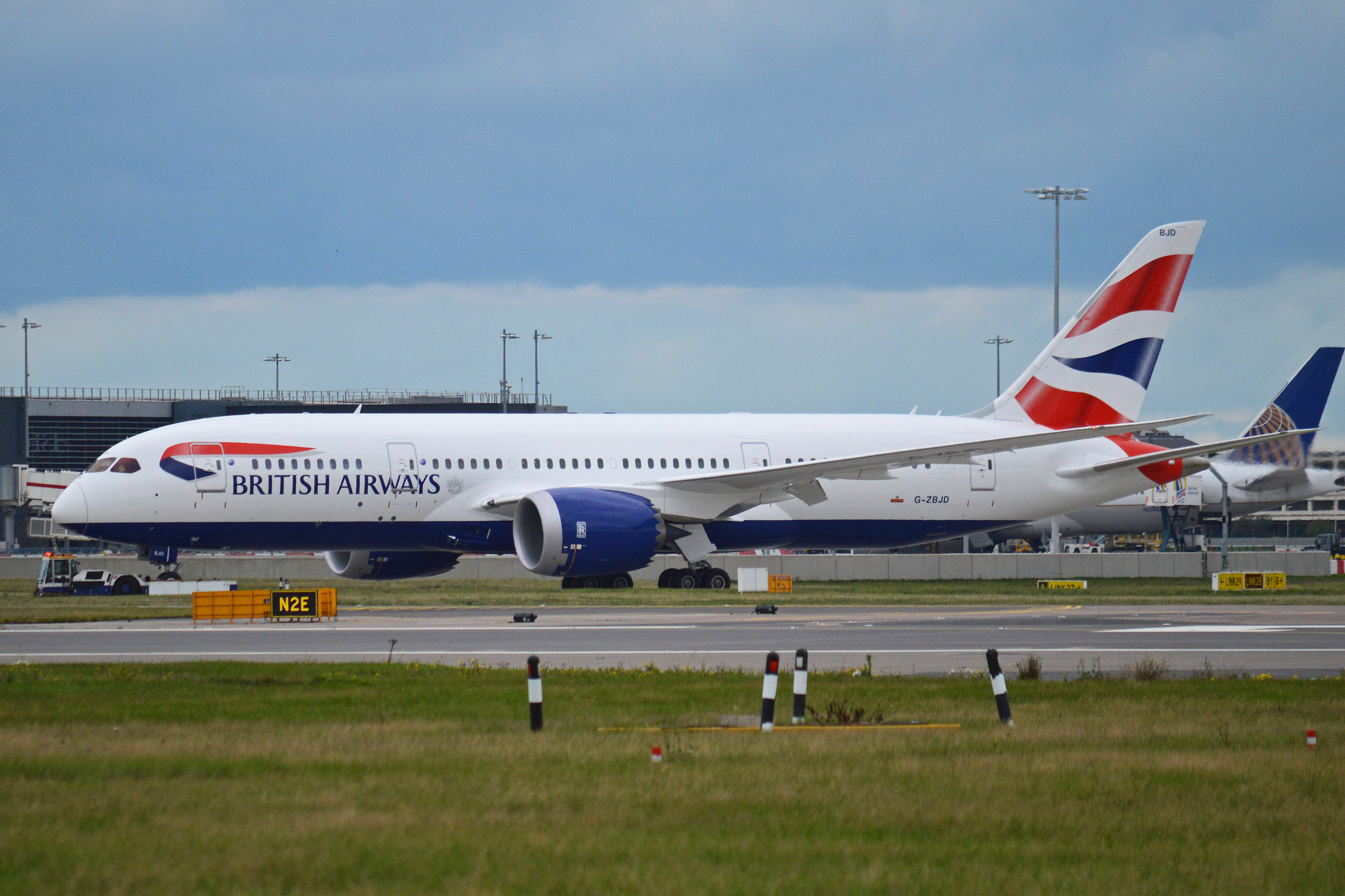 Seen while on tow from BA Maintenance to Terminal 5. c/n 38619, l/n 121. London Heathrow. 5-10-2013